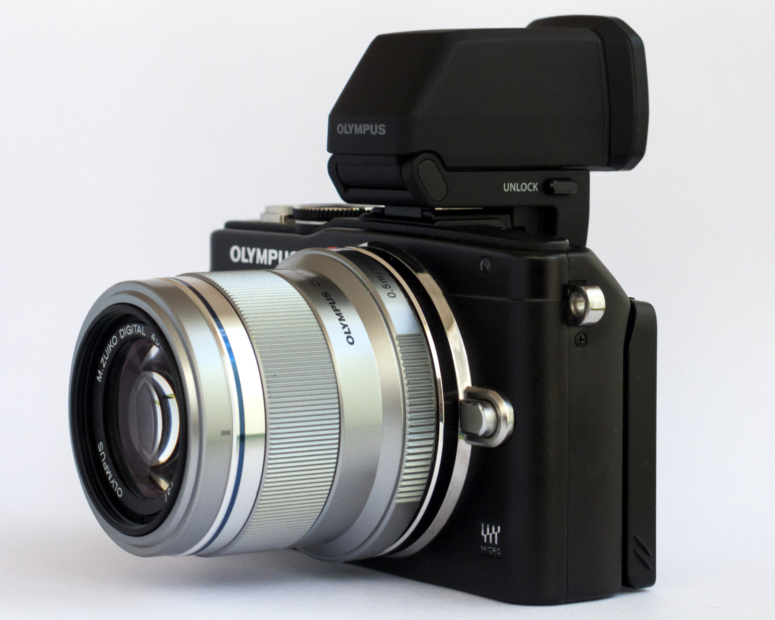 Olympus E-PL5 with electronic viewfinder VF-4 and Olympus 45mm f1.8